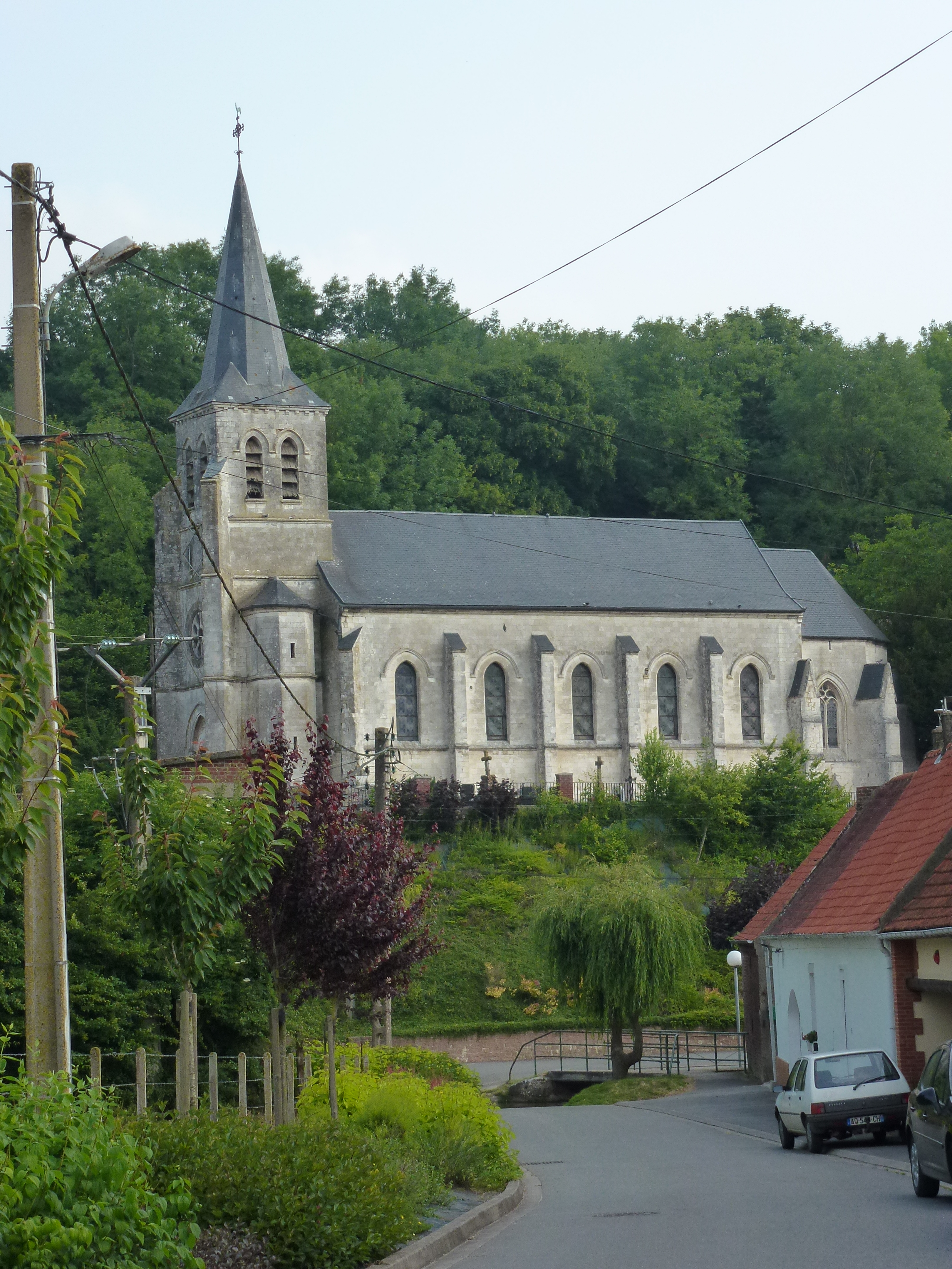 Enquin-les-Mines (Pas-de-Calais, Fr) église d'Enquin